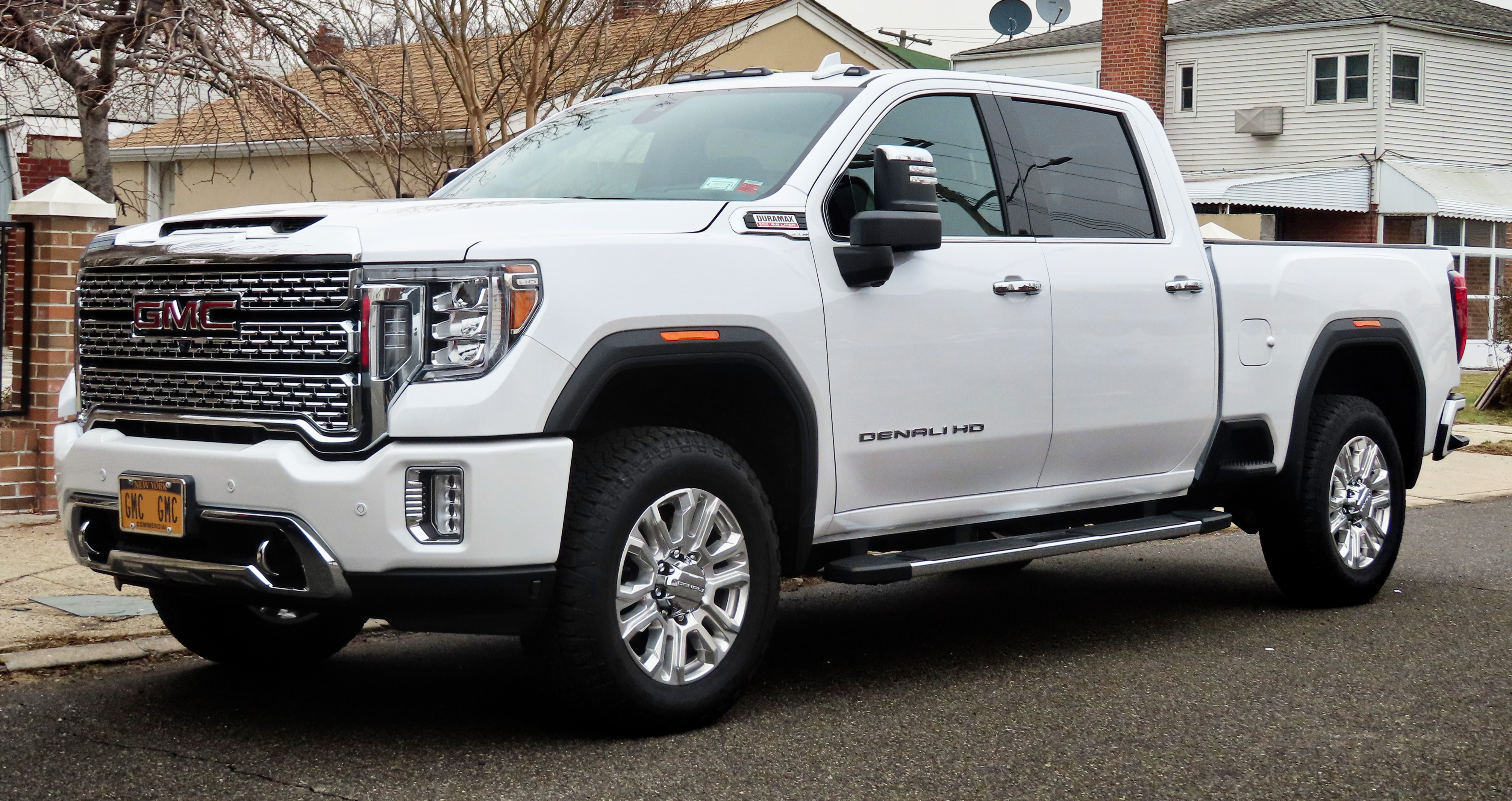 A 2020 GMC Sierra 2500 Denali HD photographed in Flushing, Queens, Queens, New York, USA